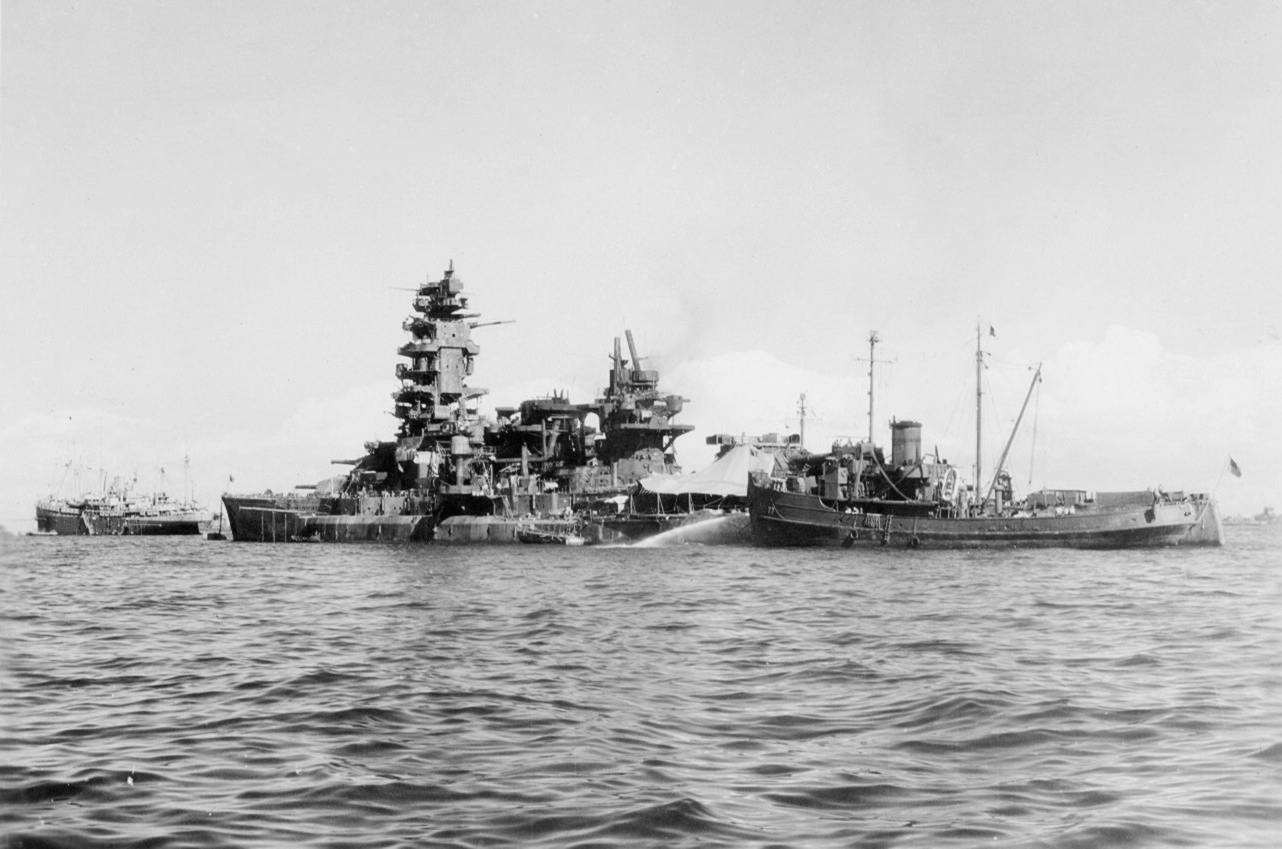 The captured Japanese battleship Nagato pictured at anchor, probably at Yokosuka Naval Base.